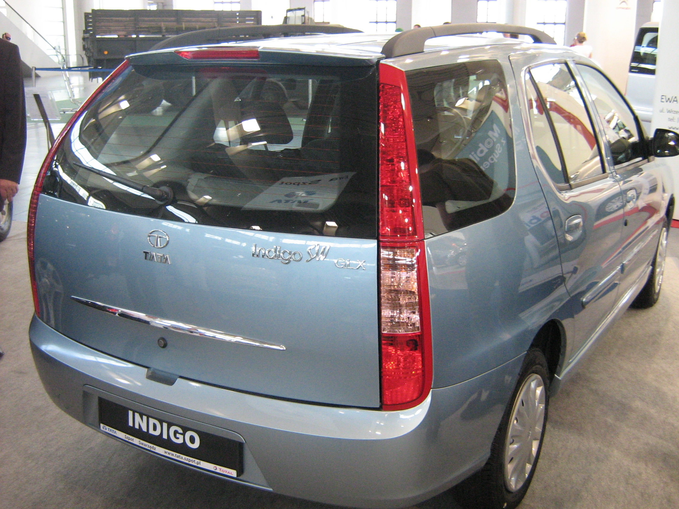 Tata Indigo SW Facelift - PSM 2009 in Poznan.